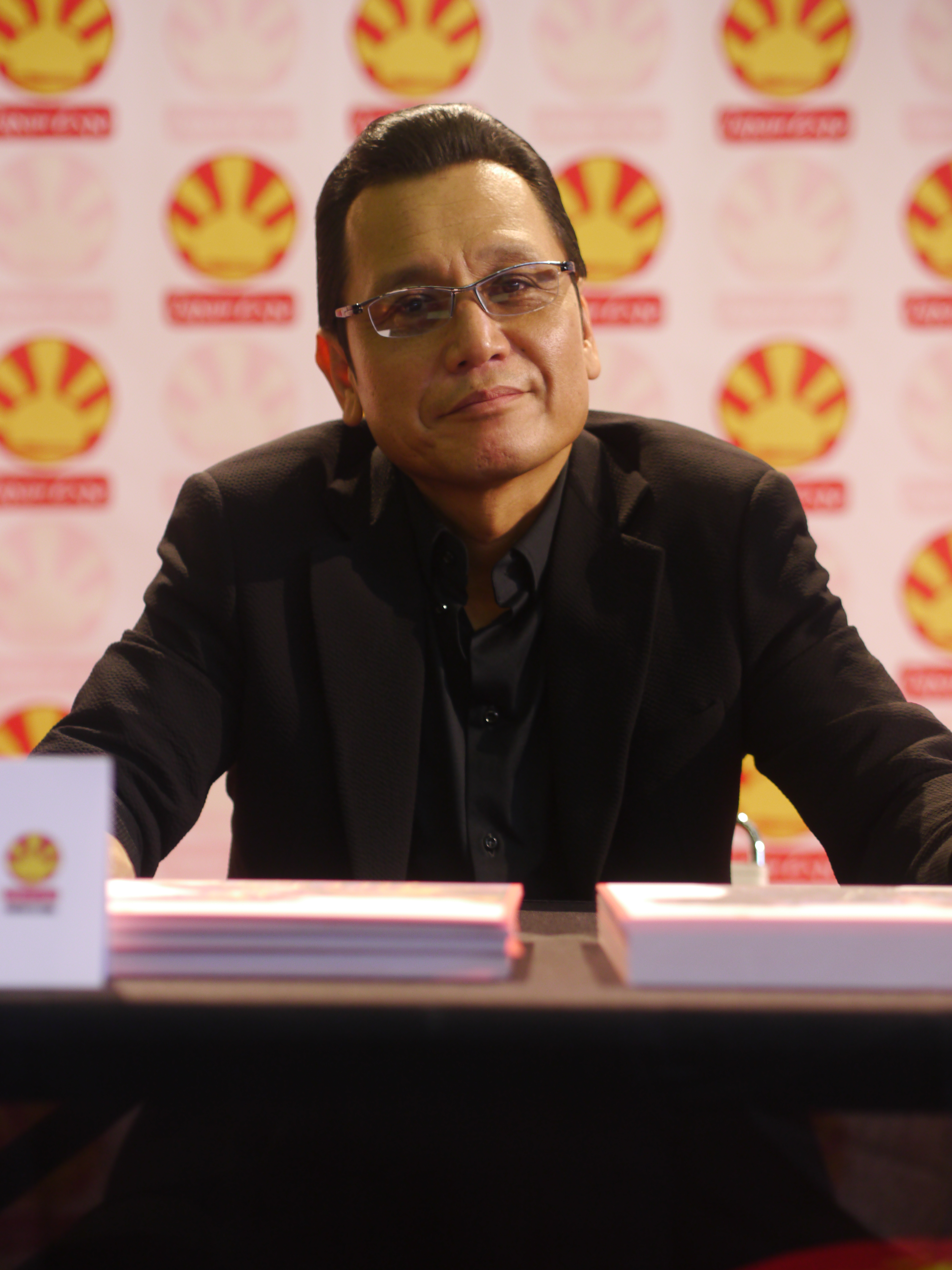 Japan Expo Festival, 14th impact